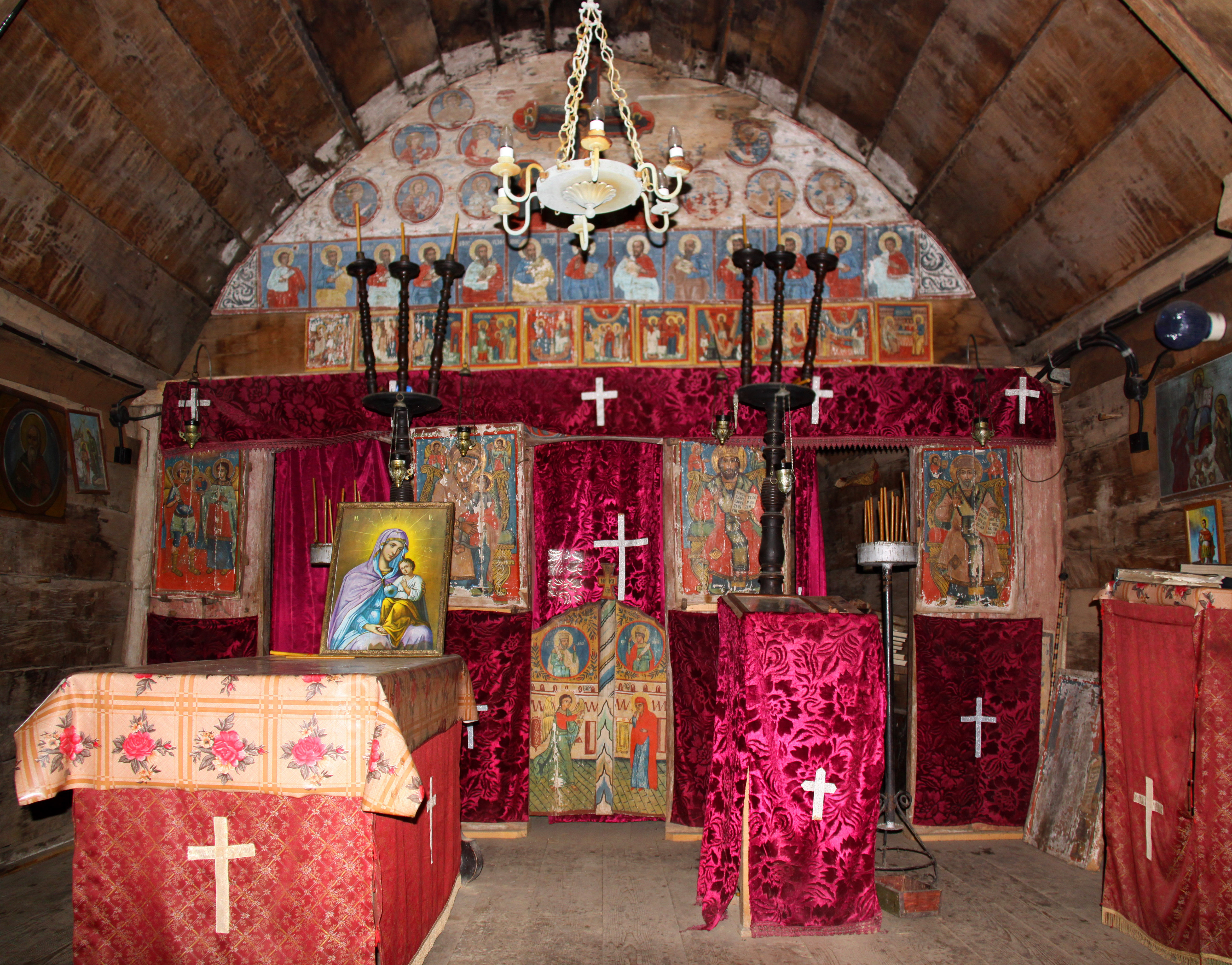 Mănăileşti-Moşneni, Vâlcea, România: the wooden church, inside the nave, the icon screen.